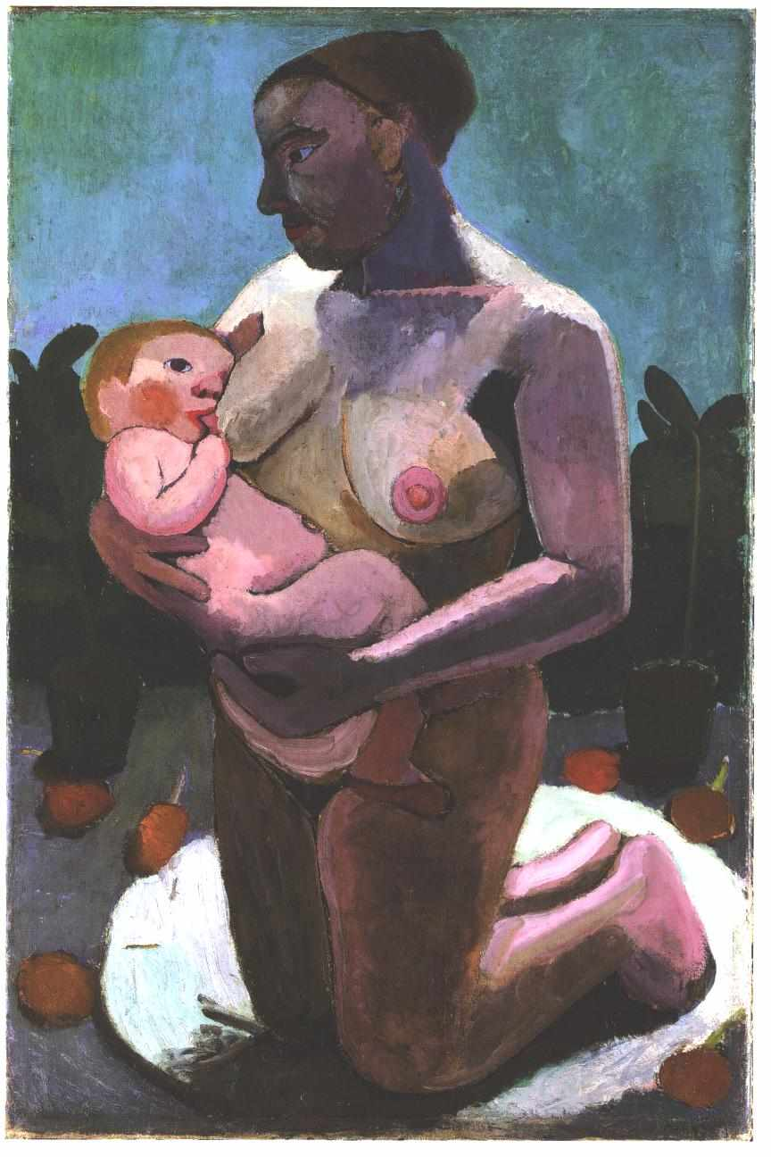 Kneeling breast feeding mother